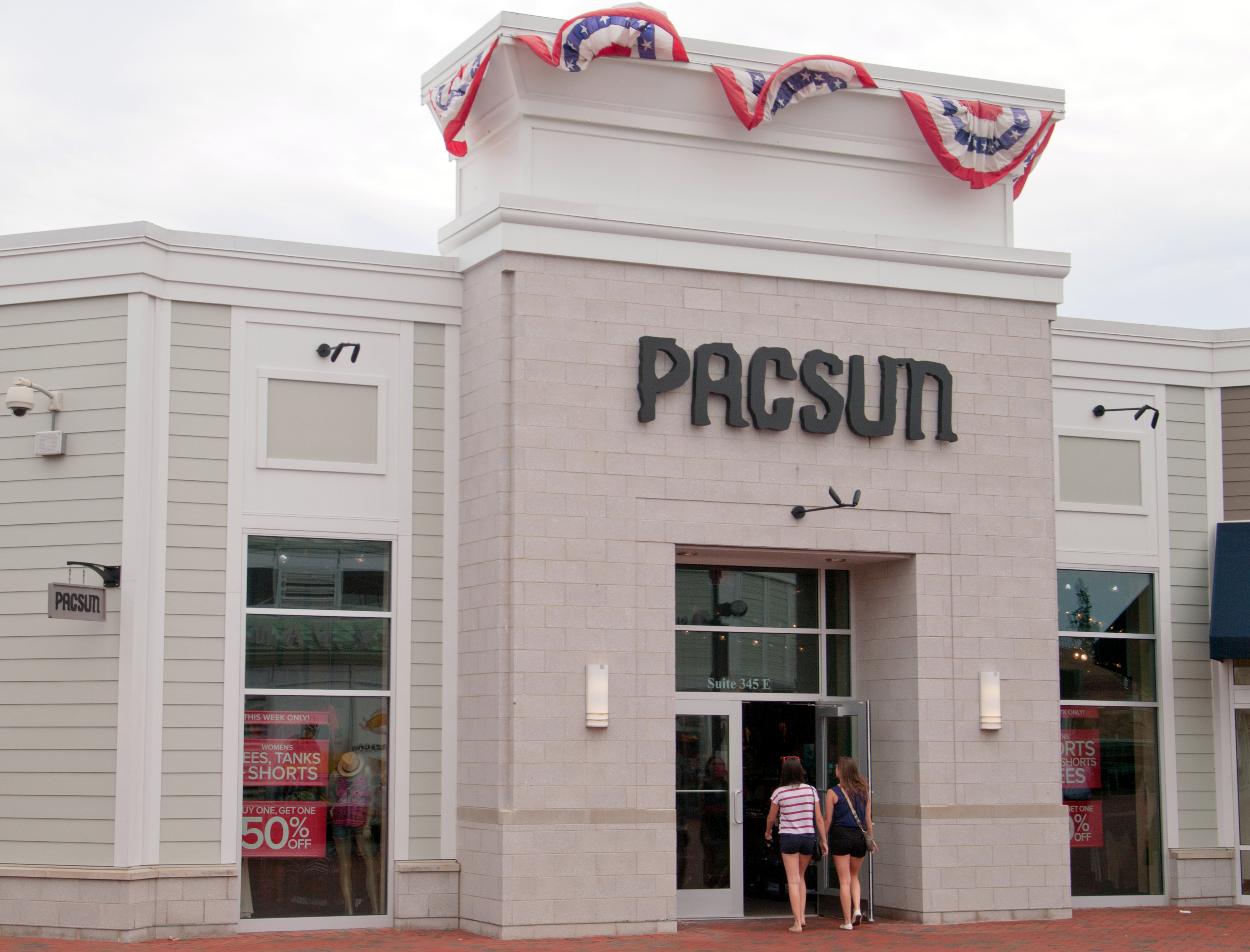 Pacsun outlet in Freeport, Maine.